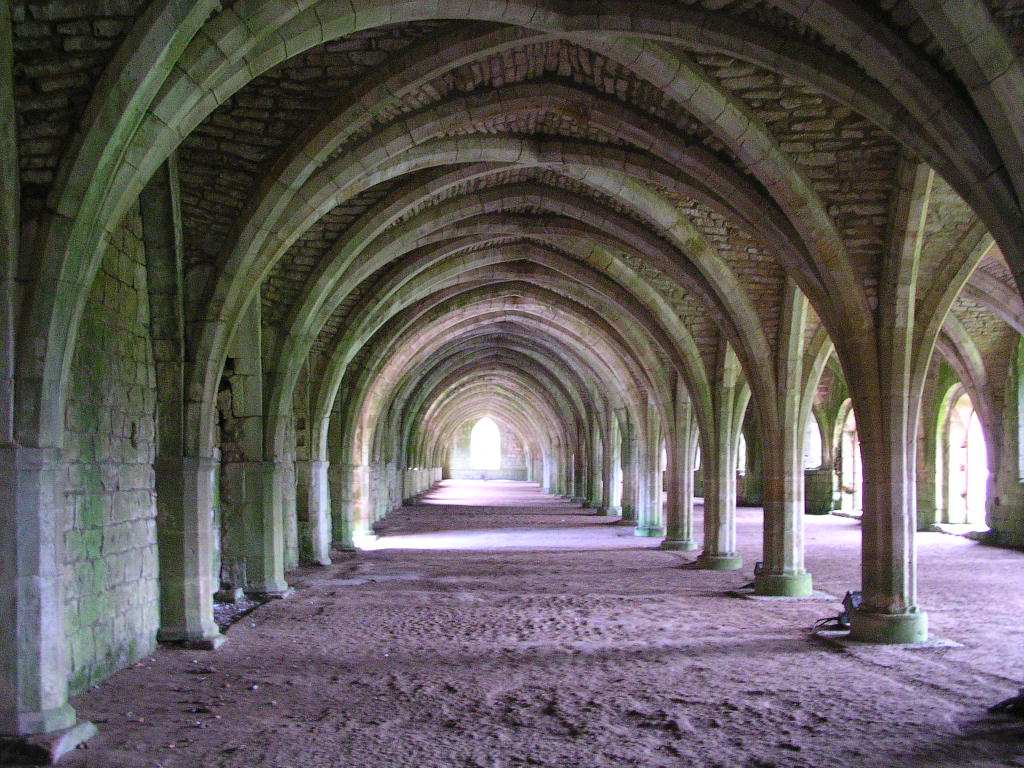 Vaulted Monks' refectory, Fountains Abbey, Yorkshire, England.